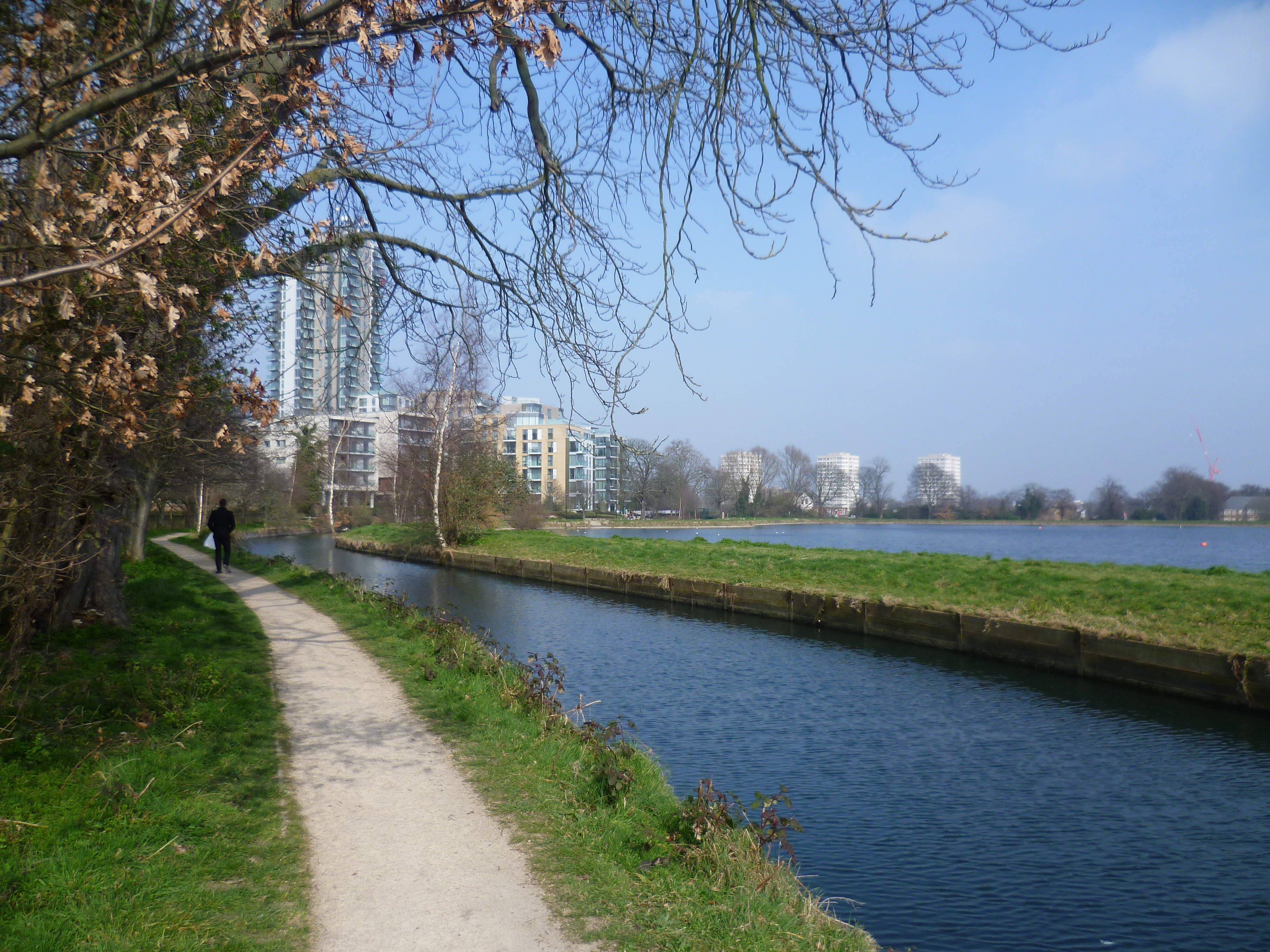 A view of the east reservoir facing three tower blocks